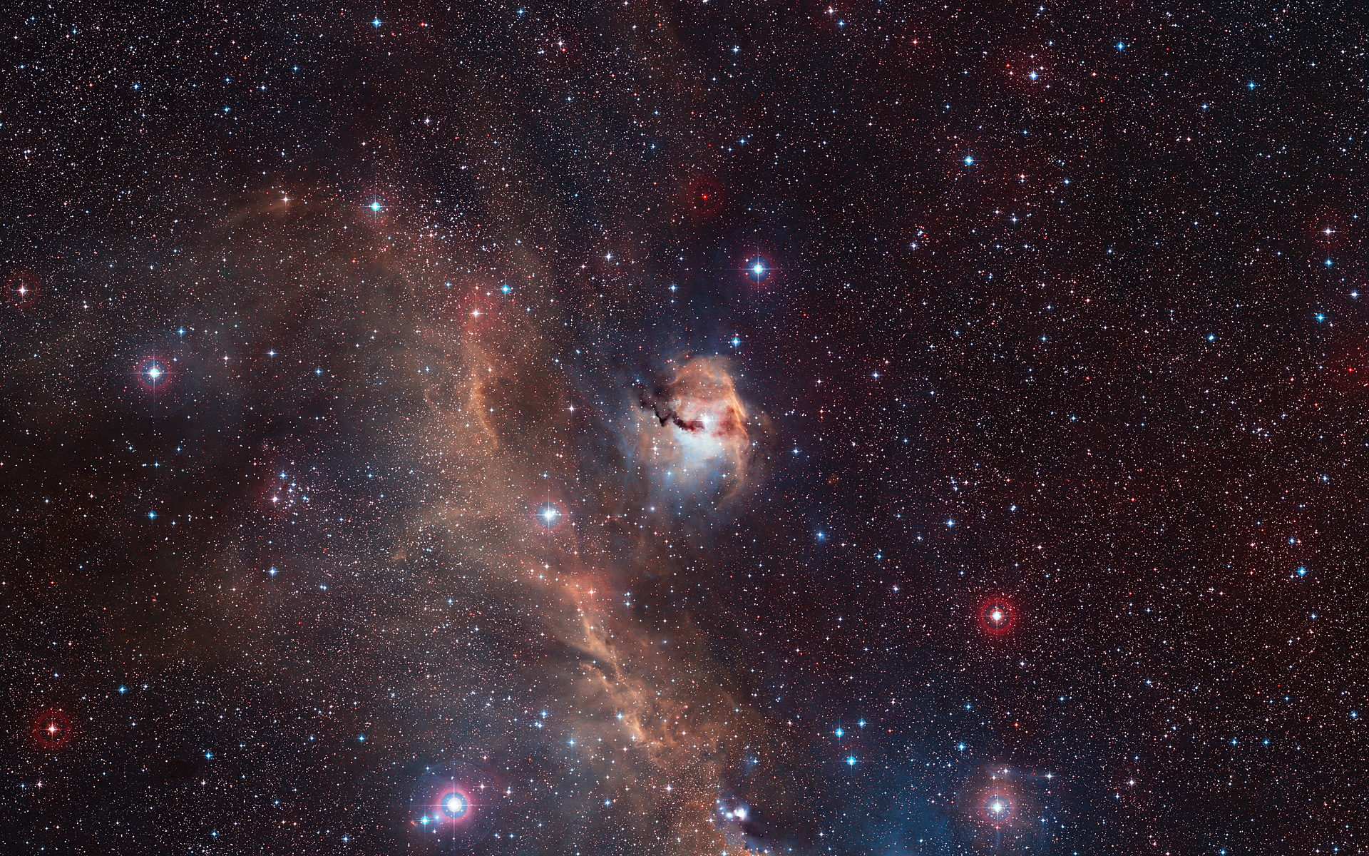 This wide-field view captures the evocative and colourful star formation region of the Seagull Nebula, IC 2177, on the borders of the constellations of Monoceros (The Unicorn) and Canis Major (The Great Dog). This view was created from images forming part of the Digitized Sky Survey 2.